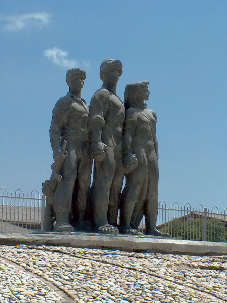 Natan Rapoport, Monument at Kibuz Negba, Israel. photo by Michael Yakobson (benben24walla.co.il)